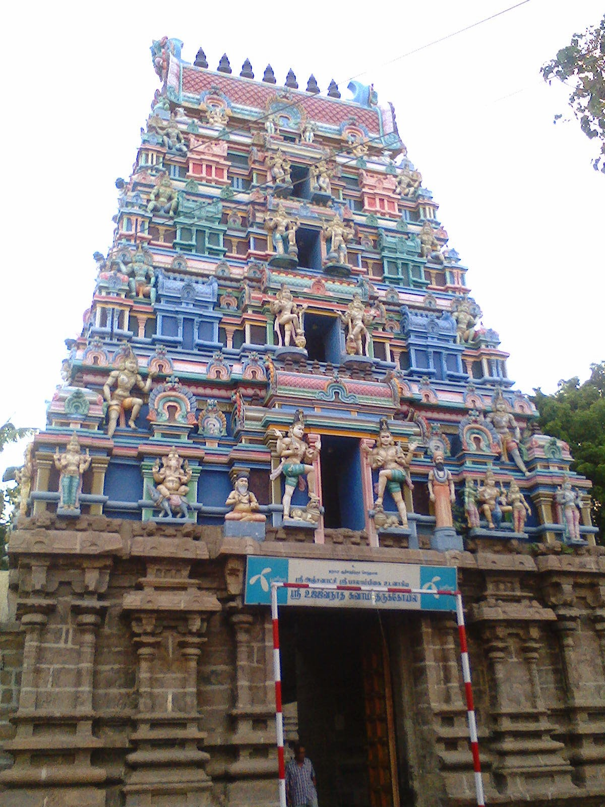 Karkkudi ucchinathar temple கற்குடி உச்சிநாதர் கோயில்